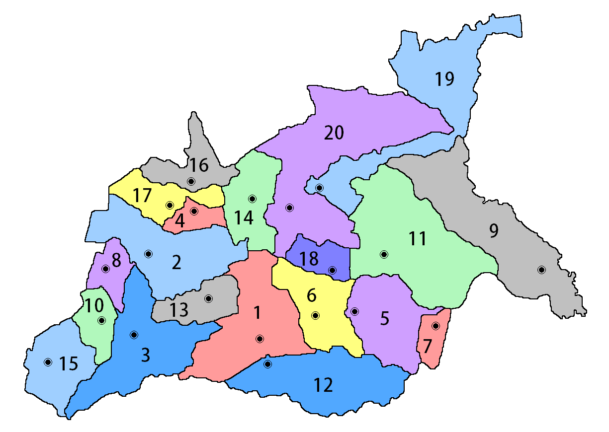 Caaguazú Department, Paraguay